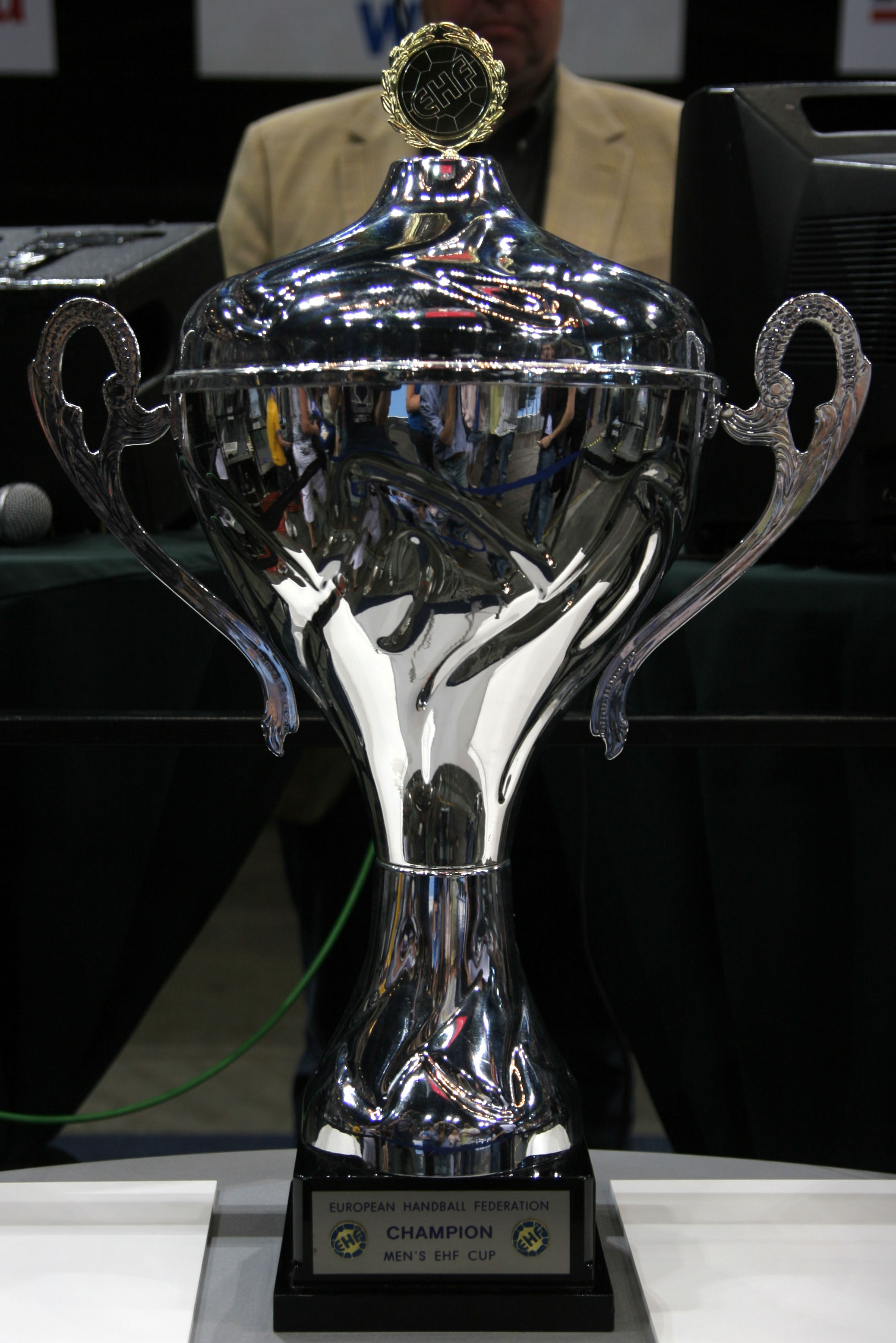 The EHF Cup. Prior the final game 2009 VfL Gummersbach vers. RK Velenje in Cologne´s Lanxes- arena on June 1st 2009.